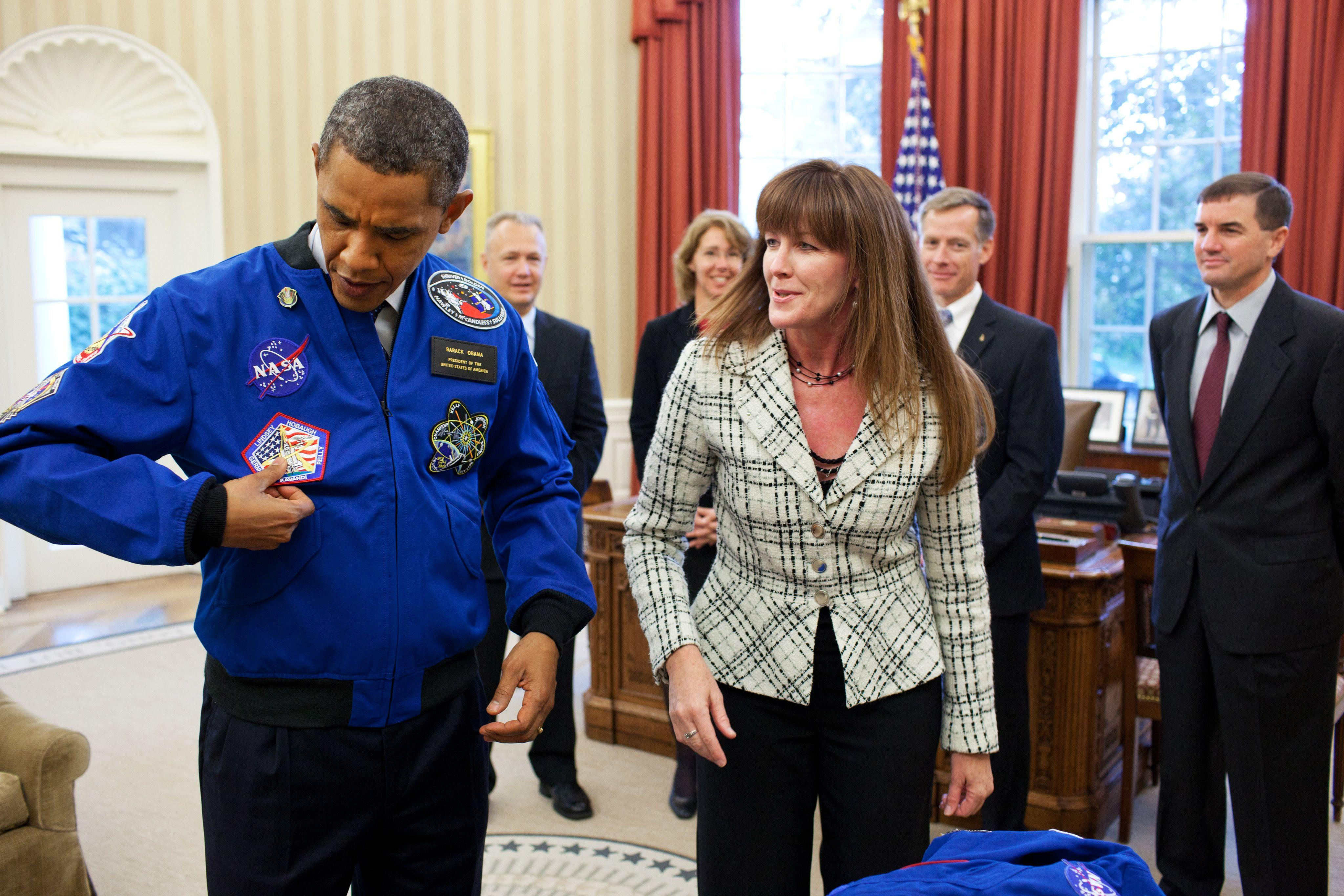 From left , Space Shuttle Atlantis STS-135 Pilot Doug Hurley, Mission Specialist Sandy Magnus, Commander Chris Ferguson and Mission Specialist Rex Walheim watch from the background as Janet Kavandi, Director of Flight Crew Operations at Johnson Space Center, Texas, presents President Obama with a coat from Space Shuttle Atlantis's final mission, in the Oval Office.